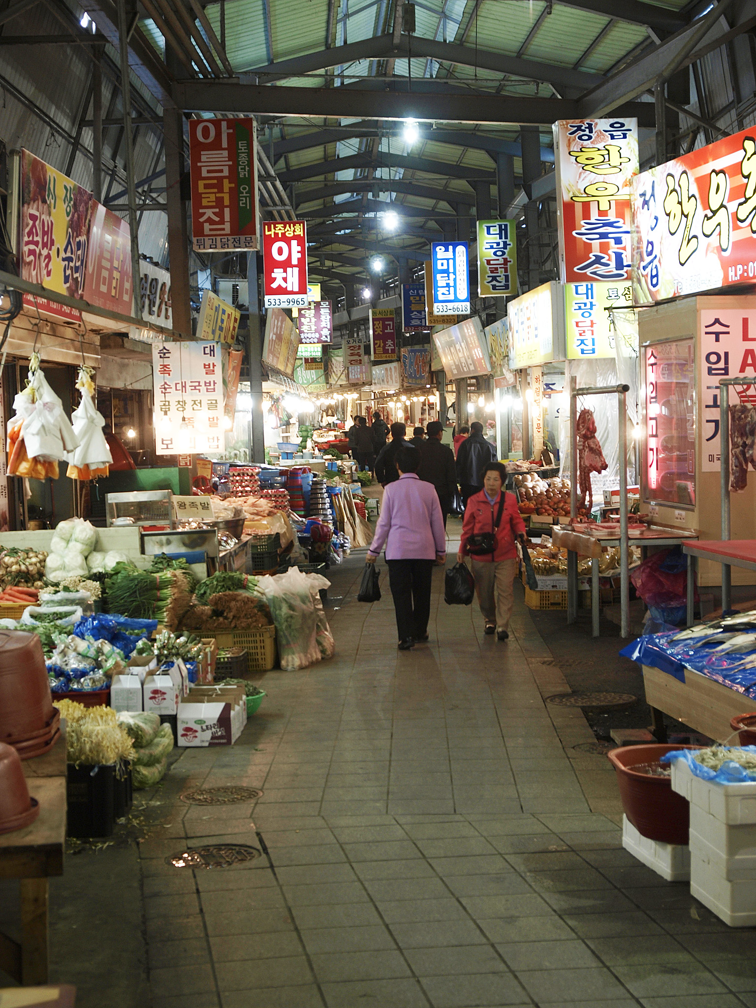 Korean traditional market at Jeongeup, Jeollabuk-do, South-Korea